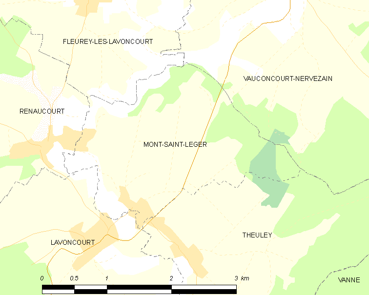 Map of French municipality